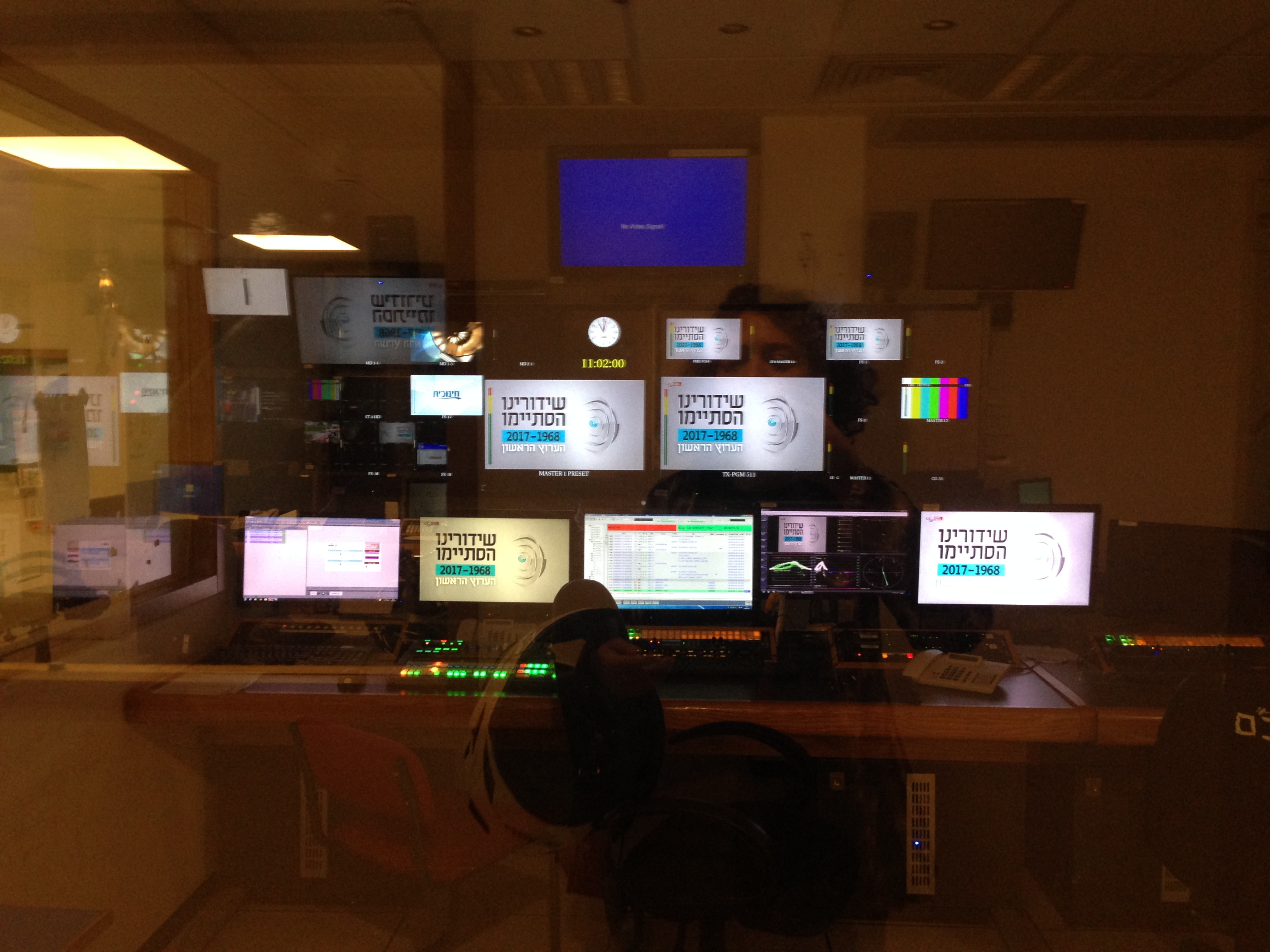 Israel Broadcast Authority in Romema Jerusalem, day after it was closed 15.4.18